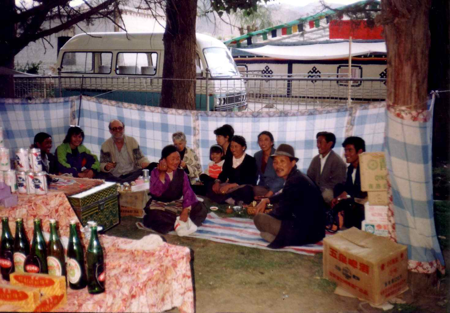 I took this photo in 1993. John E. Hill 23:56, 31 January 2007 (UTC)